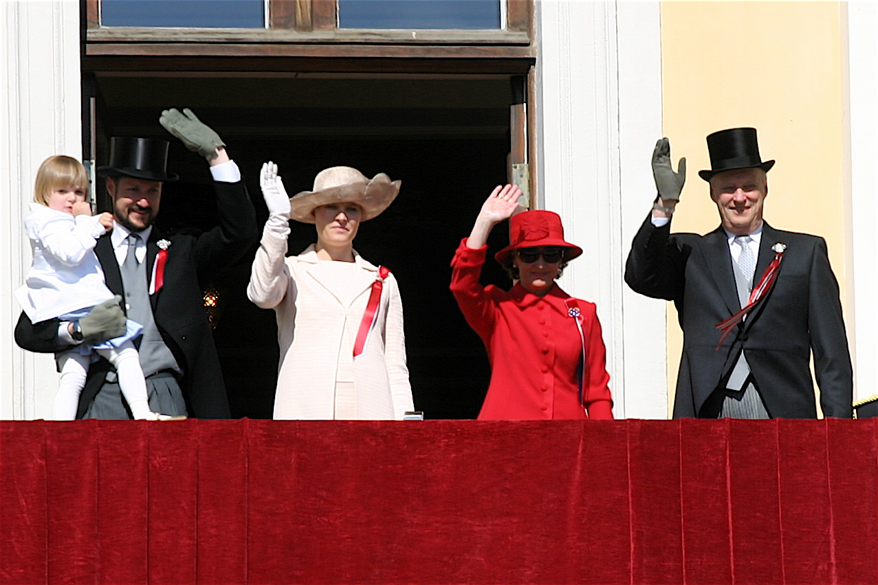 The Norwegian Royal Family. From left to right: HRH Princess Ingrid Alexandra, HRH The Crown Prince, HRH The Crown Princess, HM The Queen and HM The King.